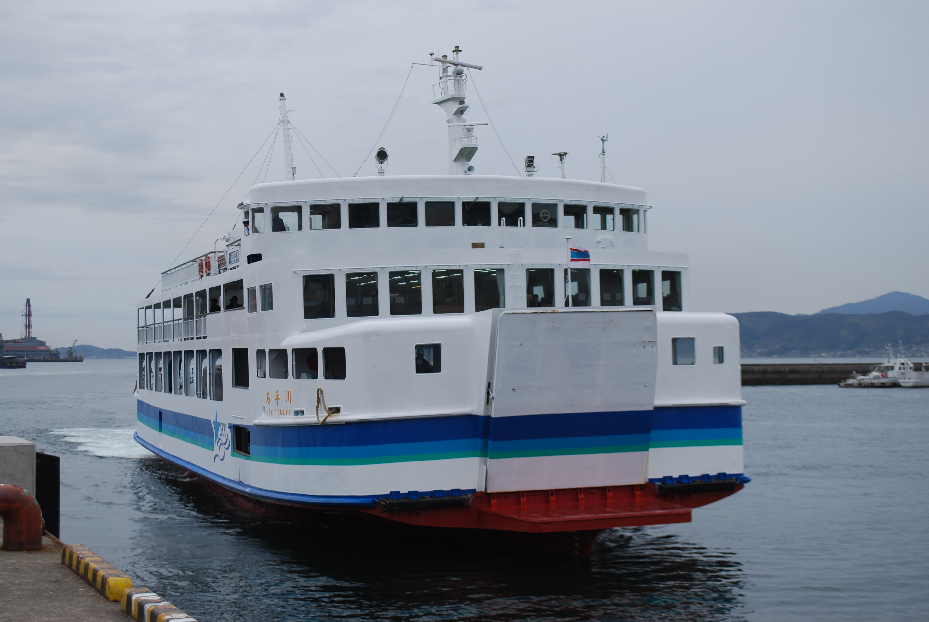 Setonaikaikisen, Ishitegawa, Kure city, Japan